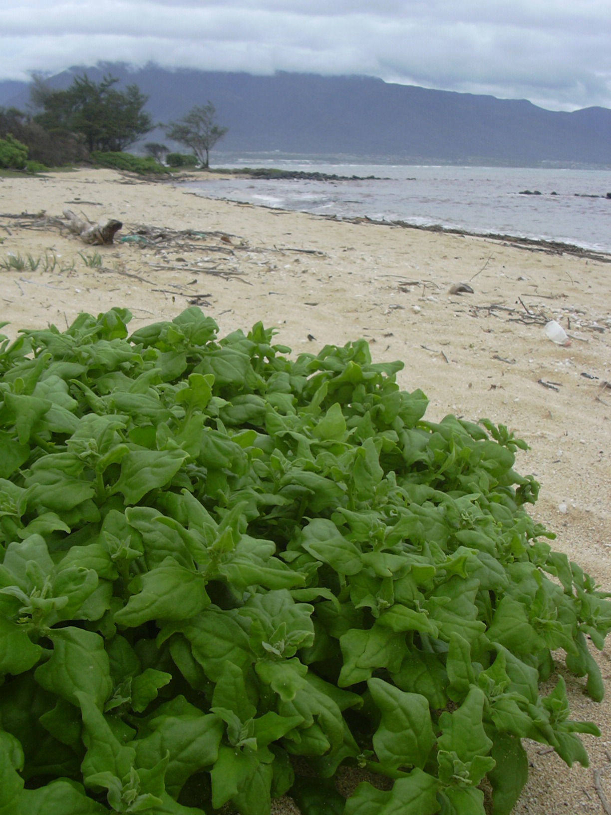 Tetragonia tetragonioides (habit). Location: Maui, Kanaha Beach